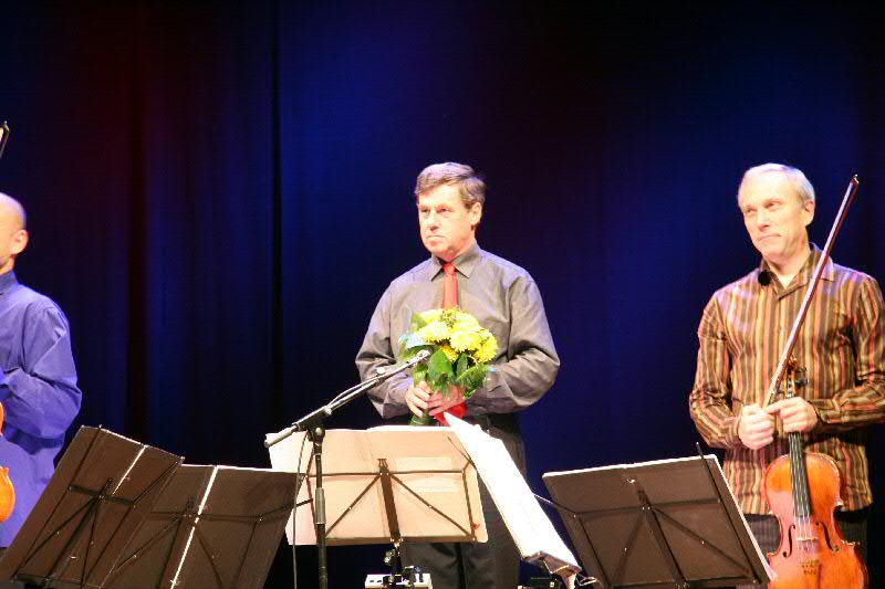 Kronos with Paul Hillier in Malmö fall 2005